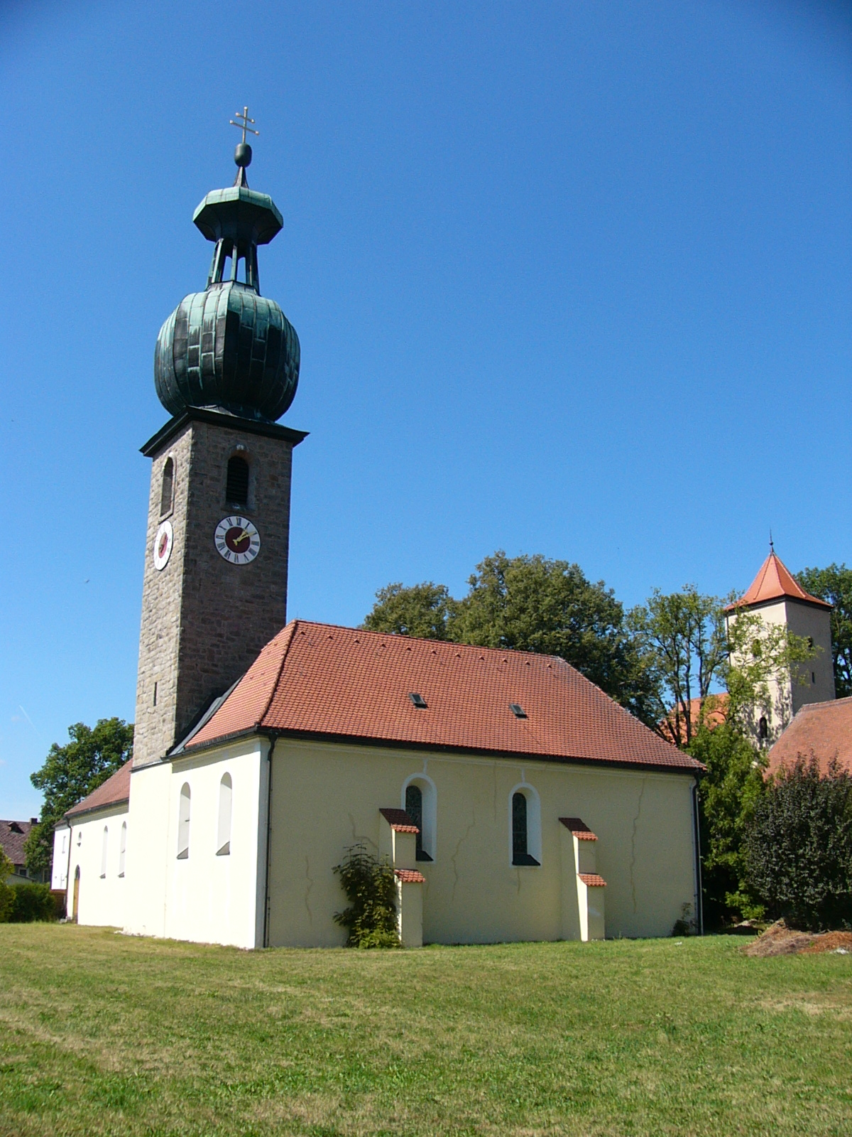 Schönkirch bei Plößberg